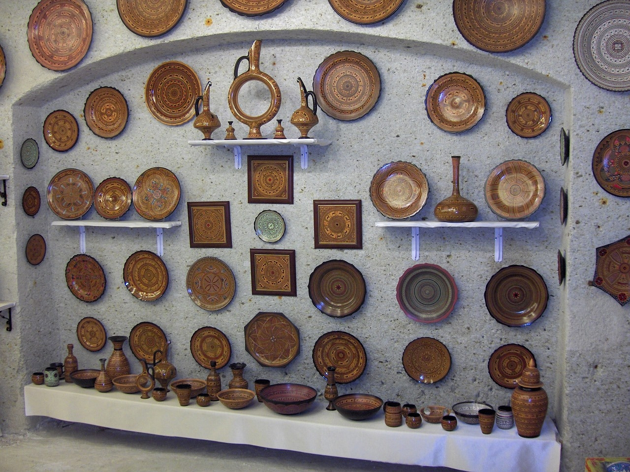 Finished products ; pottery and faience factory, Gülşehir, Cappadocia, Turkey